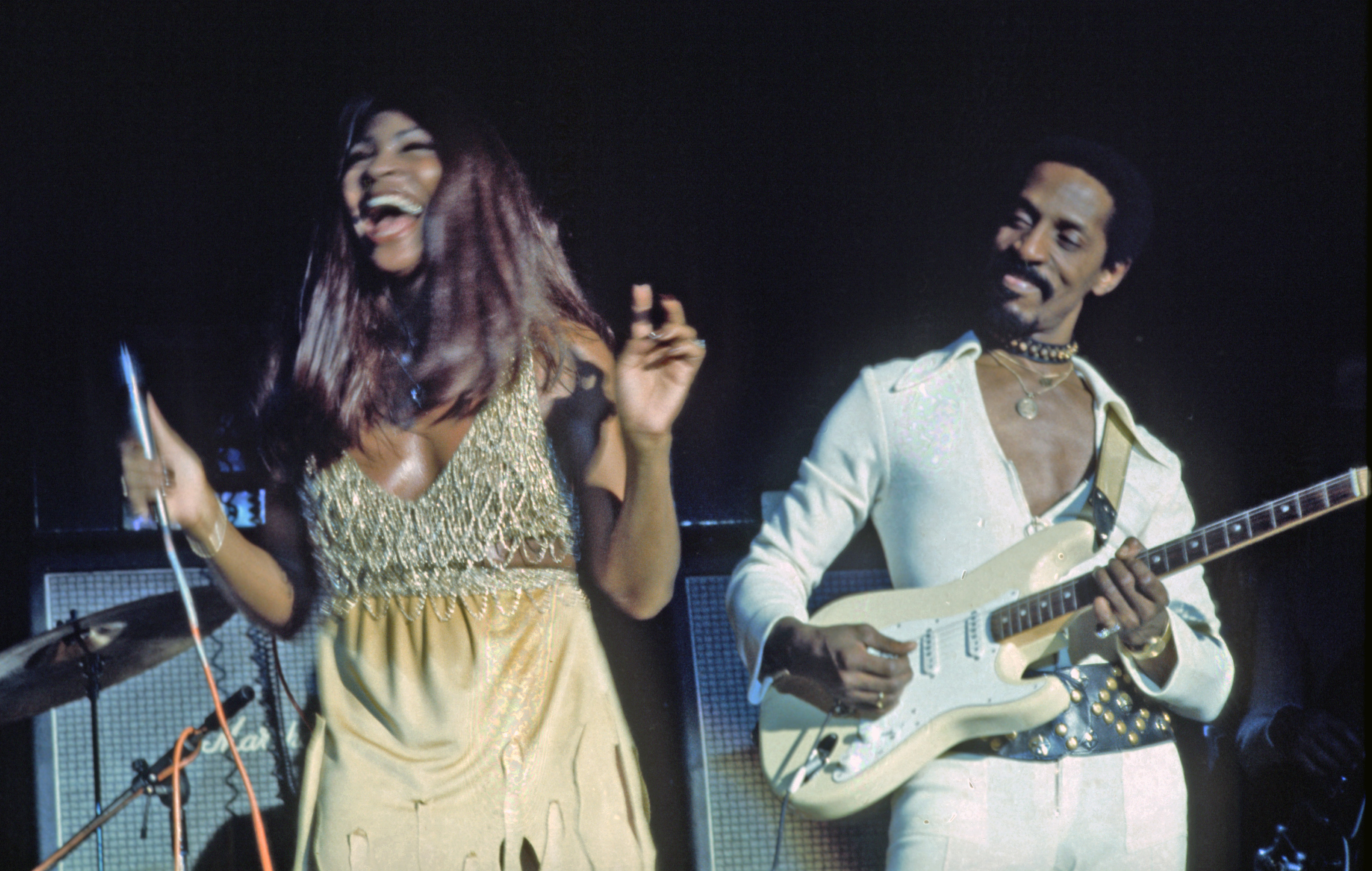 Ike Turner and Tina Turner, Hamburg Germany, November 1972.